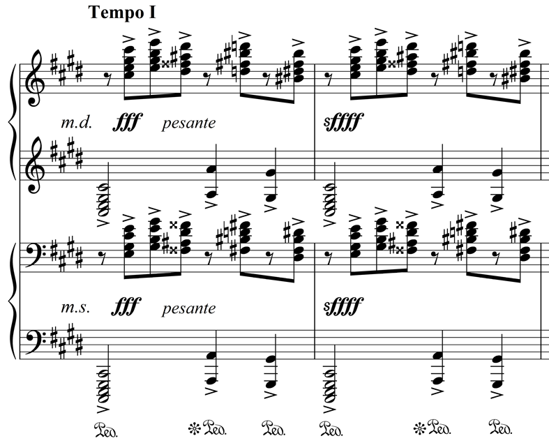 Rachmaninoff's Prelude in C-sharp minor, Op. 3, No. 2; the recapitulation of the theme, in four staves